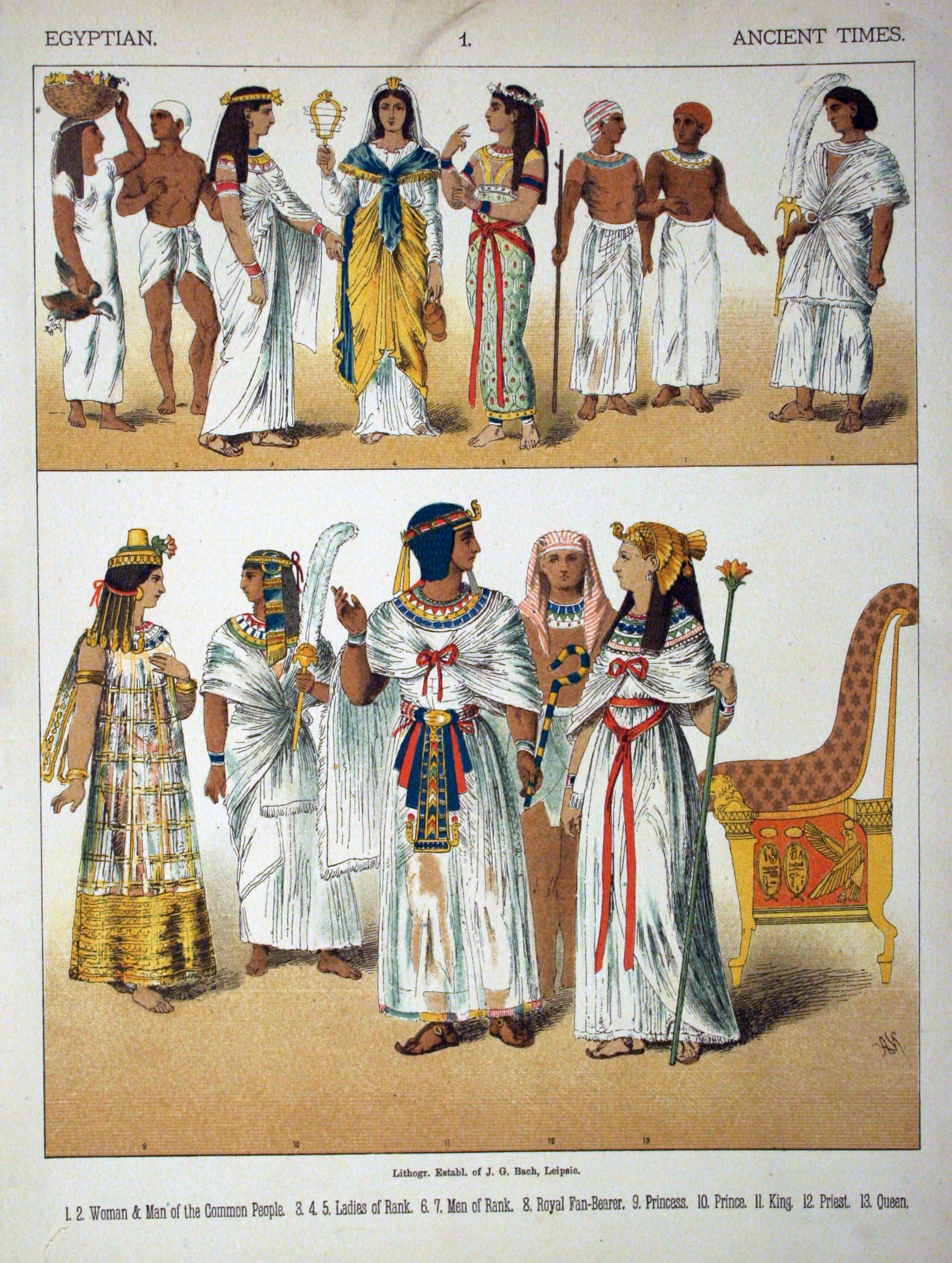 Ancient Times, Egyptian